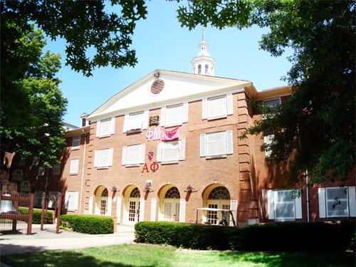 Heritage Hall Baldwin Wallace College Berea Ohio